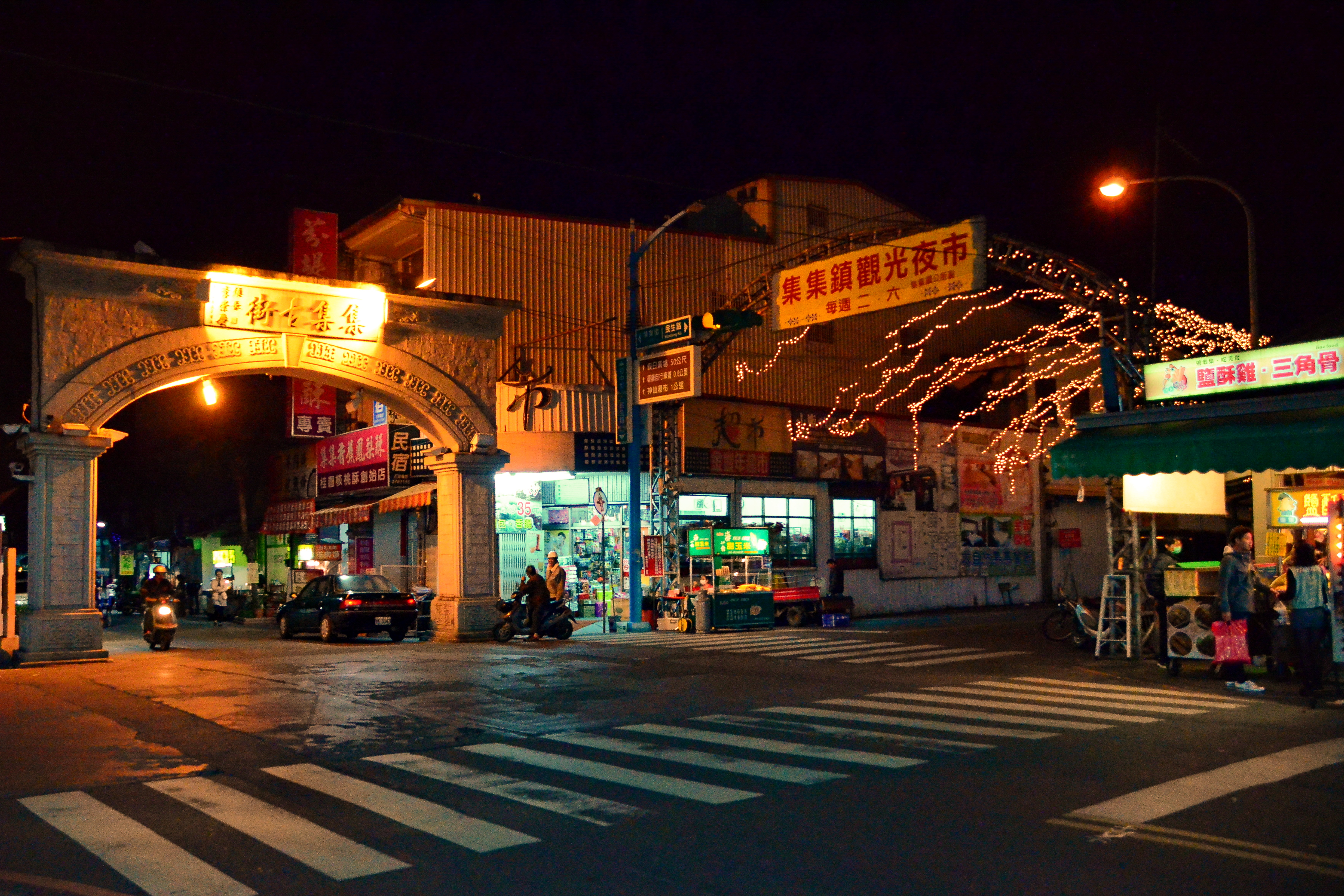 Jiji Old Street, Jiji, Nantou, Taiwan.